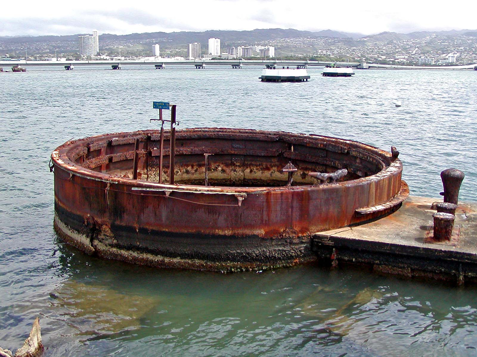 Photo of gun turret foundation at Arizona Memorial